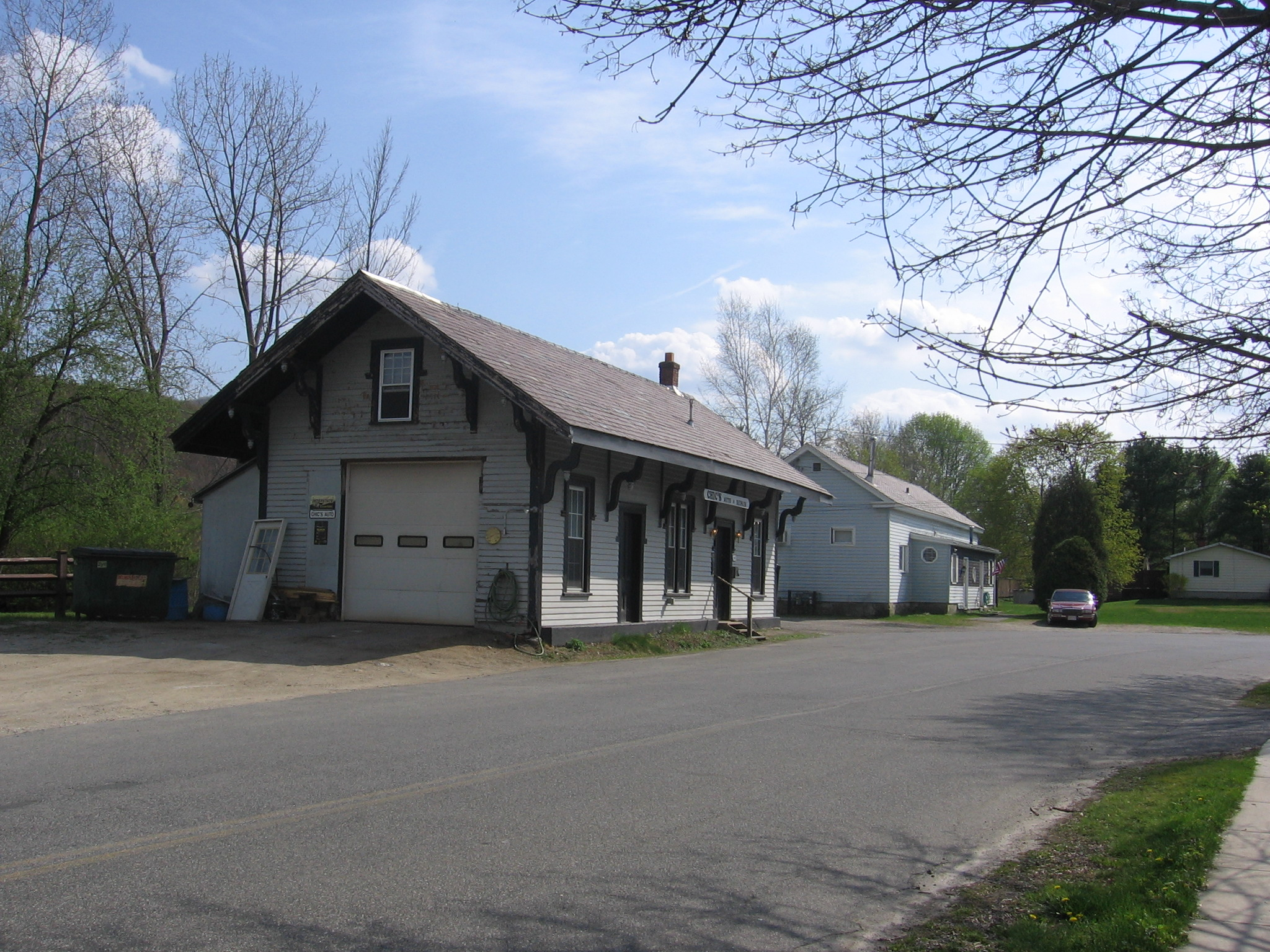 Cheshire station from 1873 serves as Chic's auto repair in Massachusetts. Apartment behind appears to have been a freight depot.